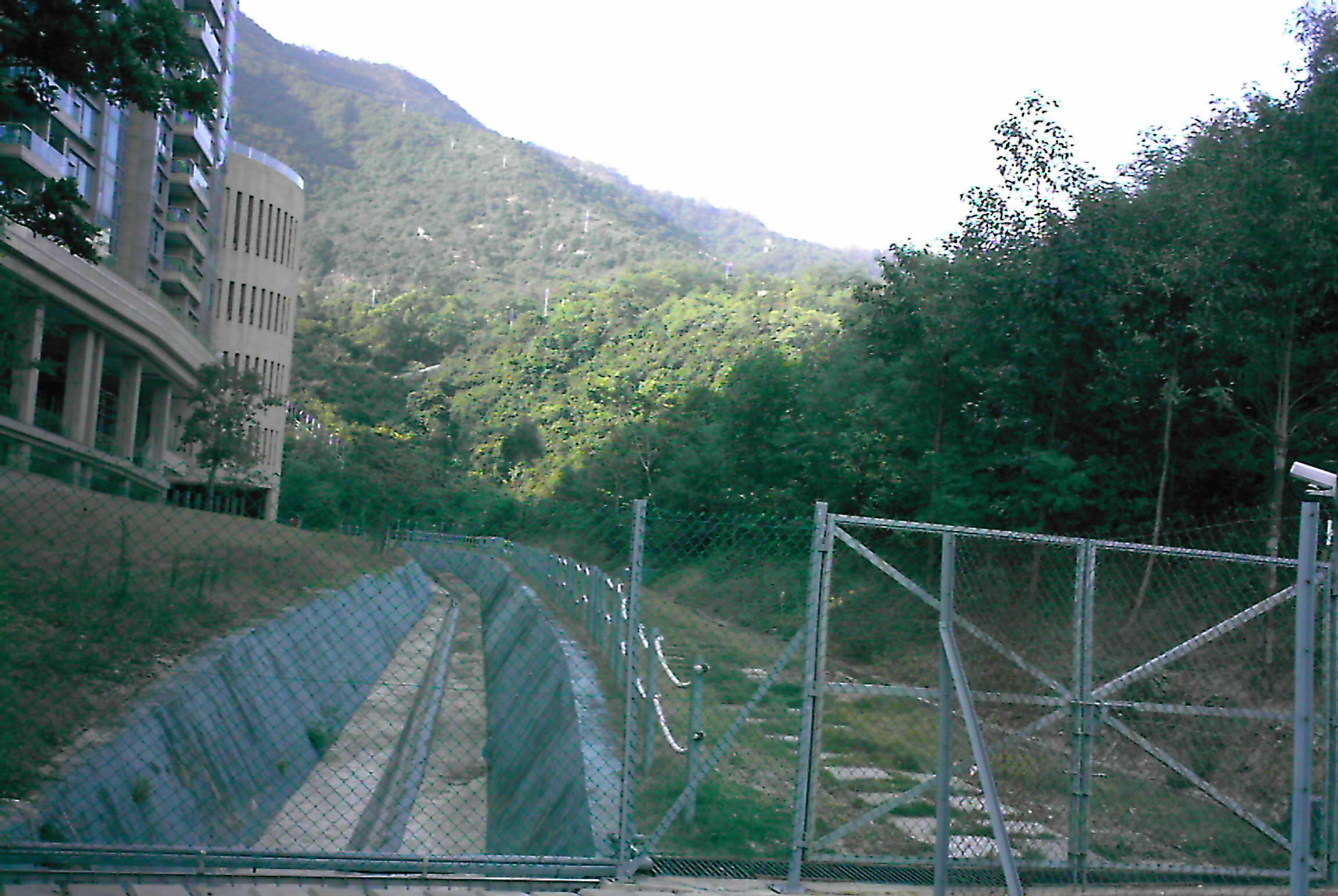 River beside Siu Sai Wu, Kowloon Tong 中文（香港）: 九龍塘筆架山小西湖：旁邊的溪澗。